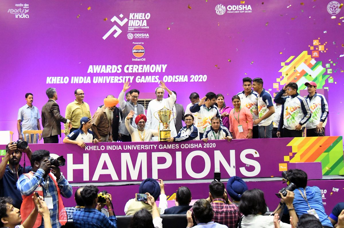 The CM of Odisha congratulated Sabitribai Phule University, Punjab University, Punjabi University for their stellar performance & expressed happiness that #Odisha got 11 medals in various categories.